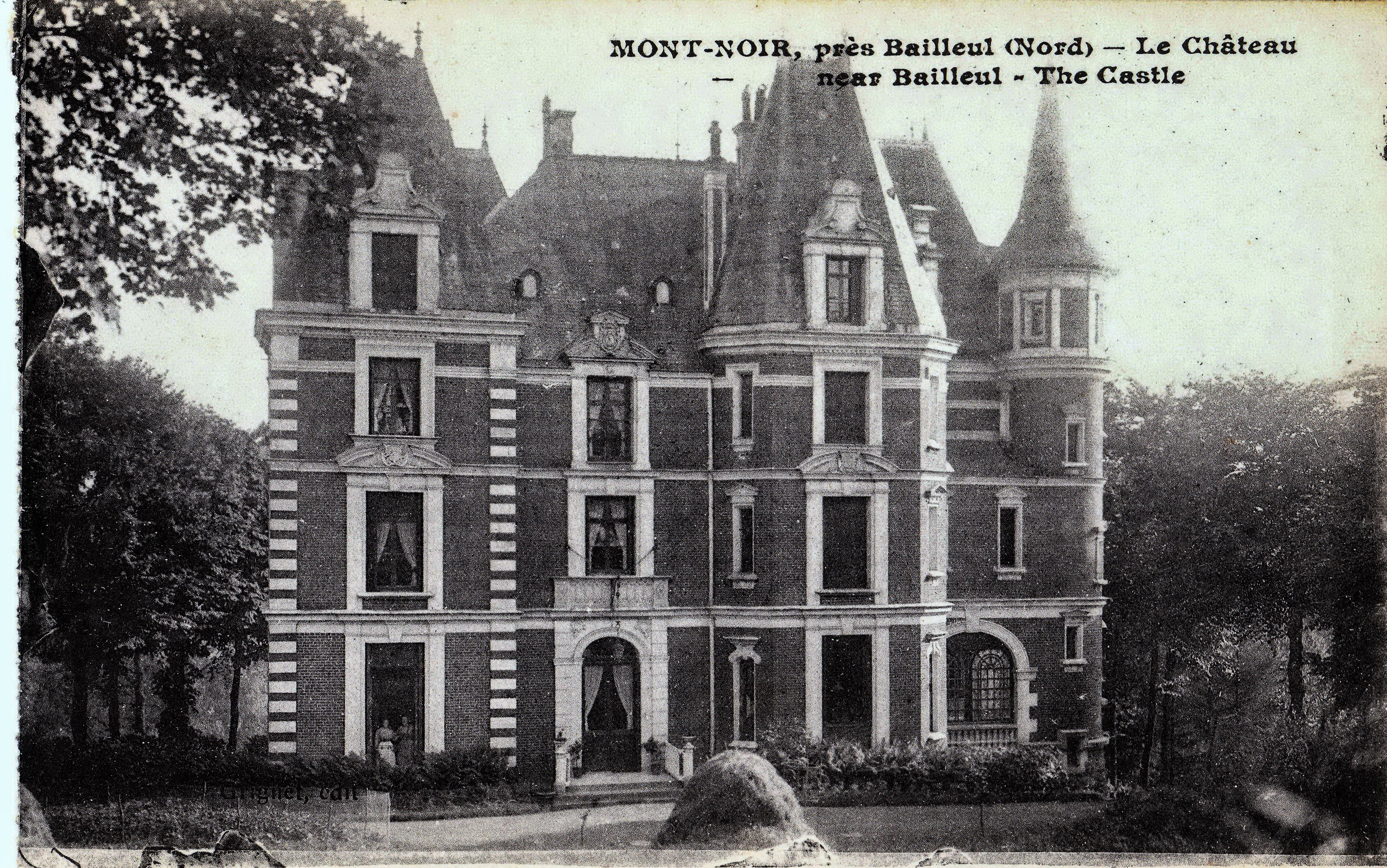 Le Mont Noir (The Black Mount )" municipality of saint Jans Cappel - French Flanders . Castle of childhood of the writer Marguerite YOURCENAR , destroyed during the WWI